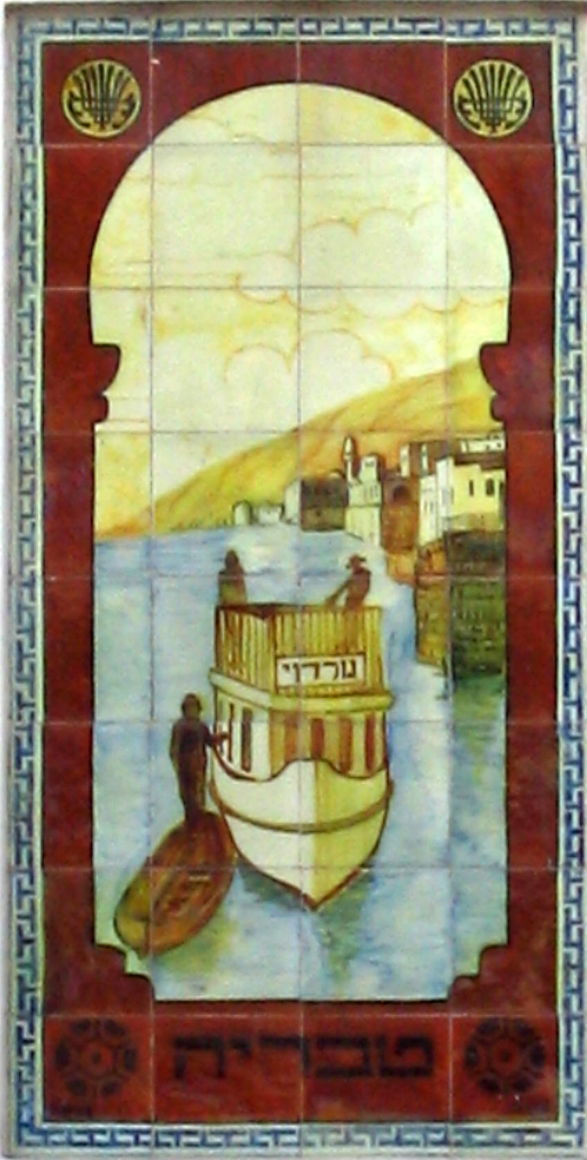 Ehad haam school, tel aviv.